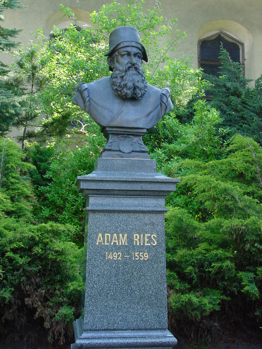 Adam Ries Memorial (reconstruction), originally created by Robert Henze, located at its former place near Saint Trinitatis Church in Annaberg-Buchholz